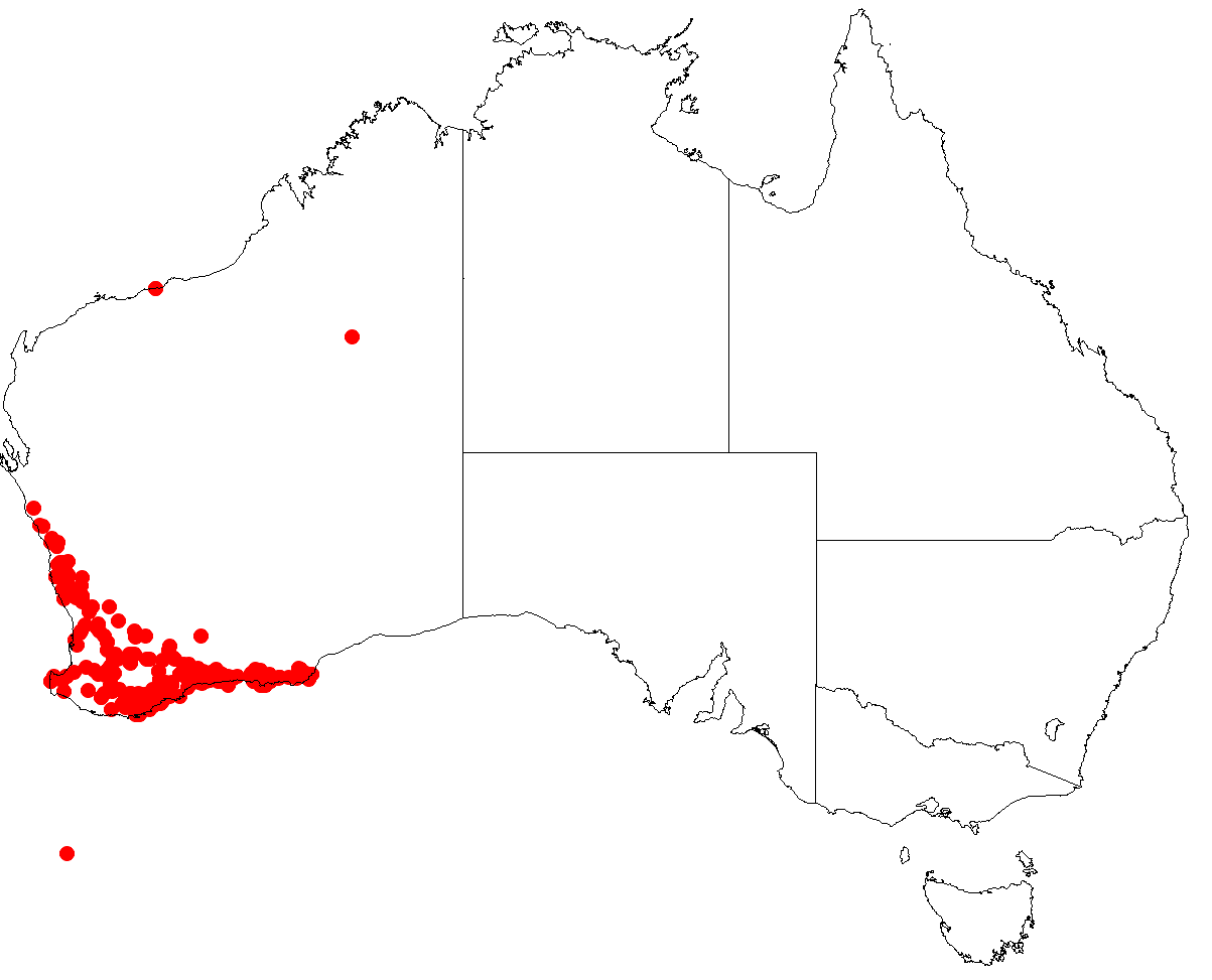 Allocasuarina thuyoides Occurrence data from AVH